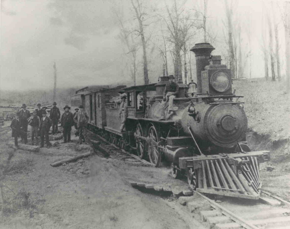 Swamp Rabbit train in Greenville in 1890s.